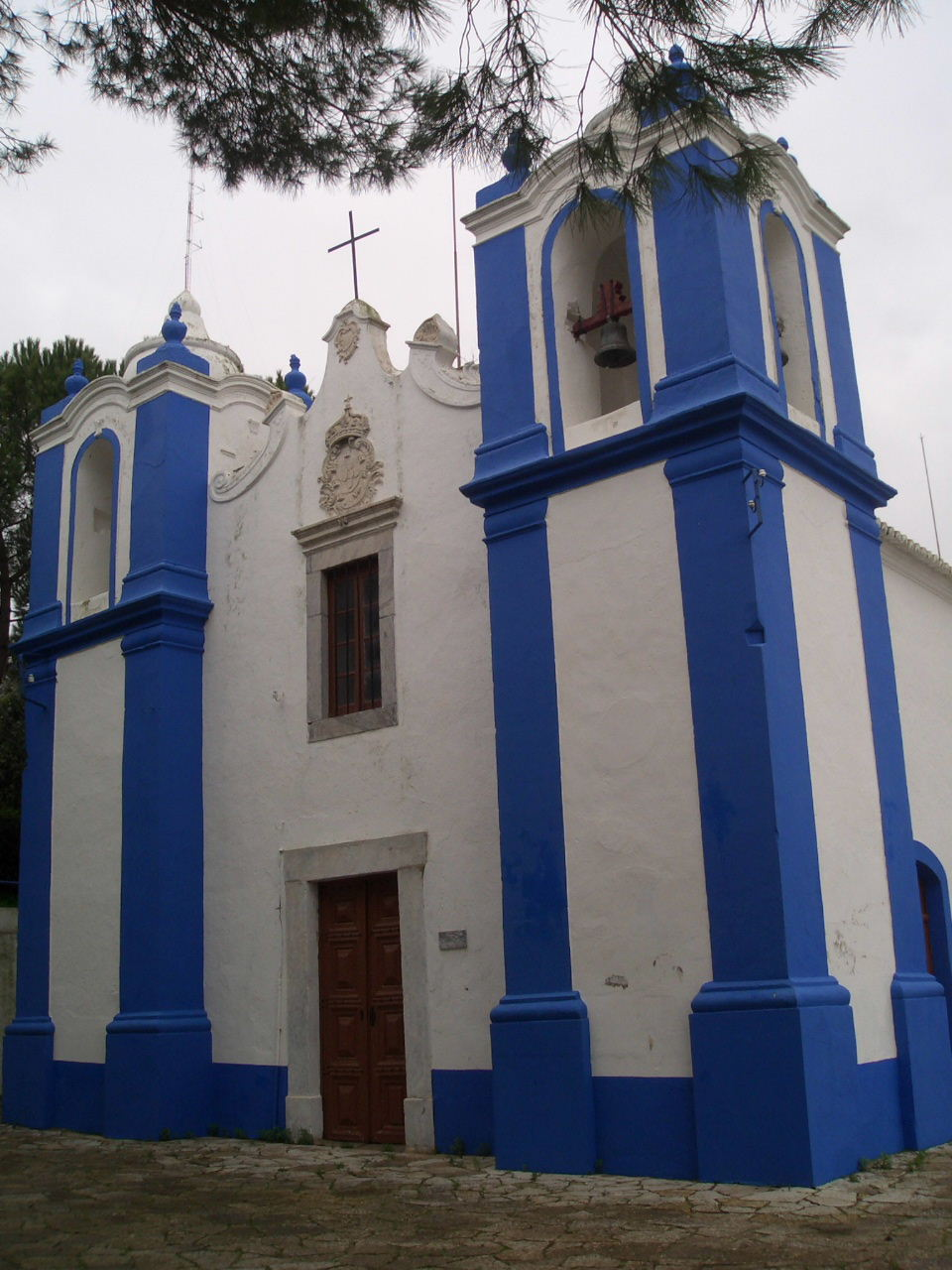 Church in Ouriqe, Portugal